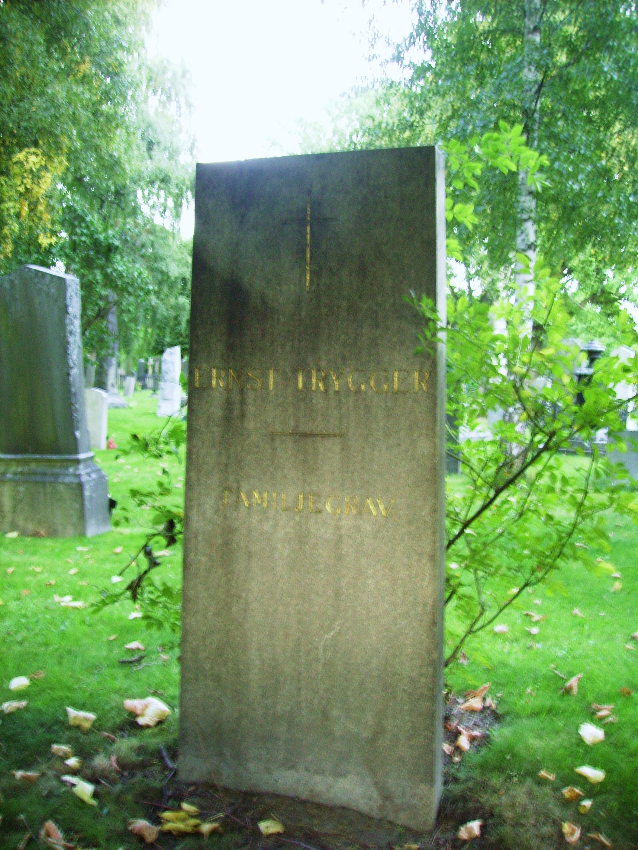 Picture of Ernst Trygger's grave at Norra begravningsplatsen in Stockholm